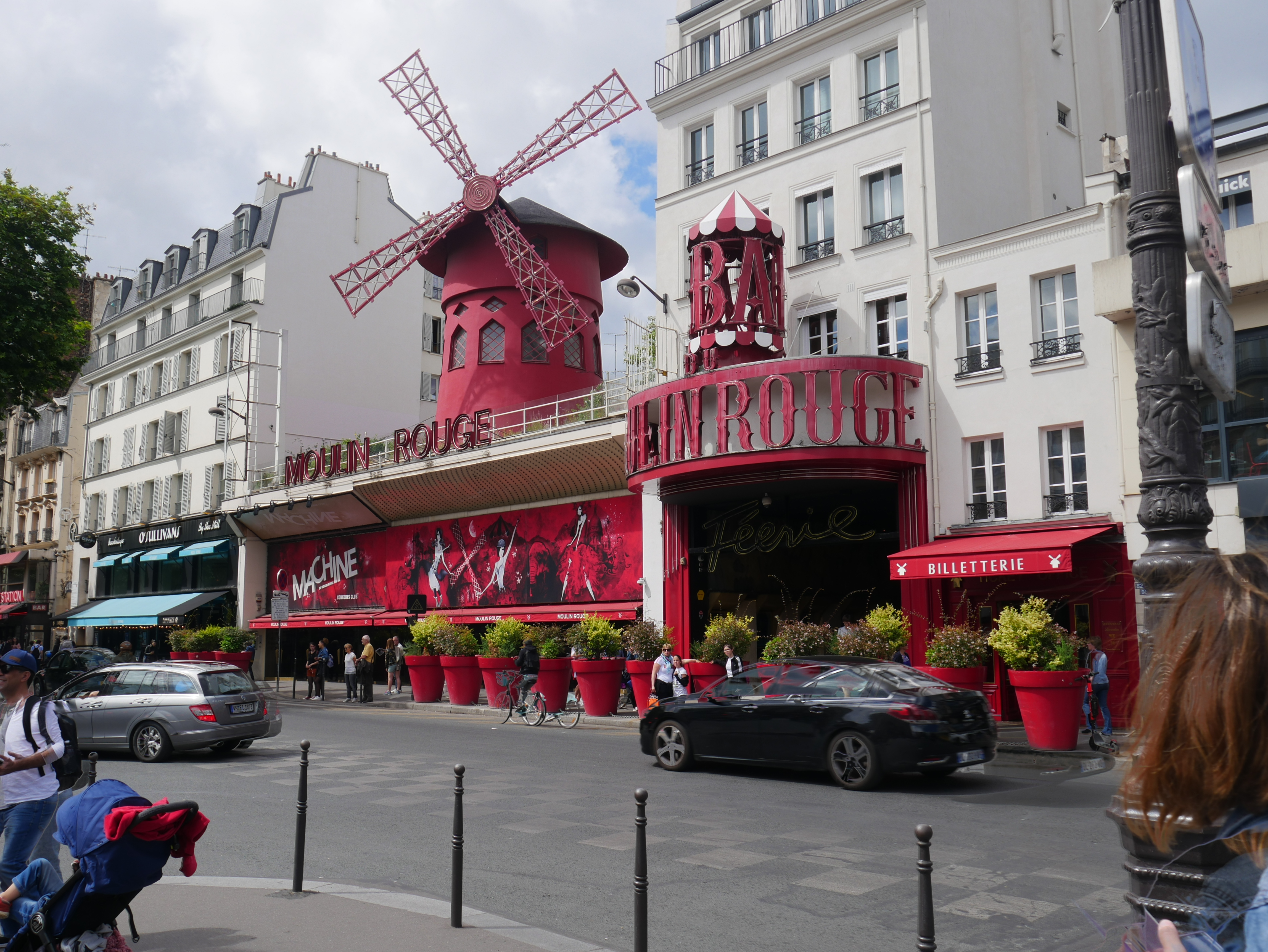 Facade of the "Moulin Rouge" from the street